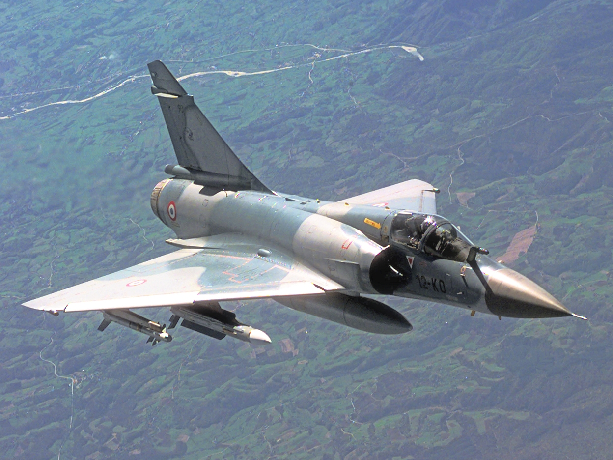 A French Air Force Mirage 2000C drops away from a United States Air Force KC-135R Stratotanker (not shown) after refueling during a Combat Patrol mission while participating in NATO Operation Allied Force. The KC-135R is based at Royal Air Force Mildenhall, England but is being flown by a crew deployed from the 384th Air Refueling Squadron, McConnell Air Force Base, Kansas. Tankers from RAF Mildenhall make-up a large portion of the tanker forces supporting NATO aircraft during NATO Operation Allied Force.